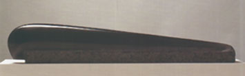 Zu kurz Abstract sculpted portrait, height: 13 cm